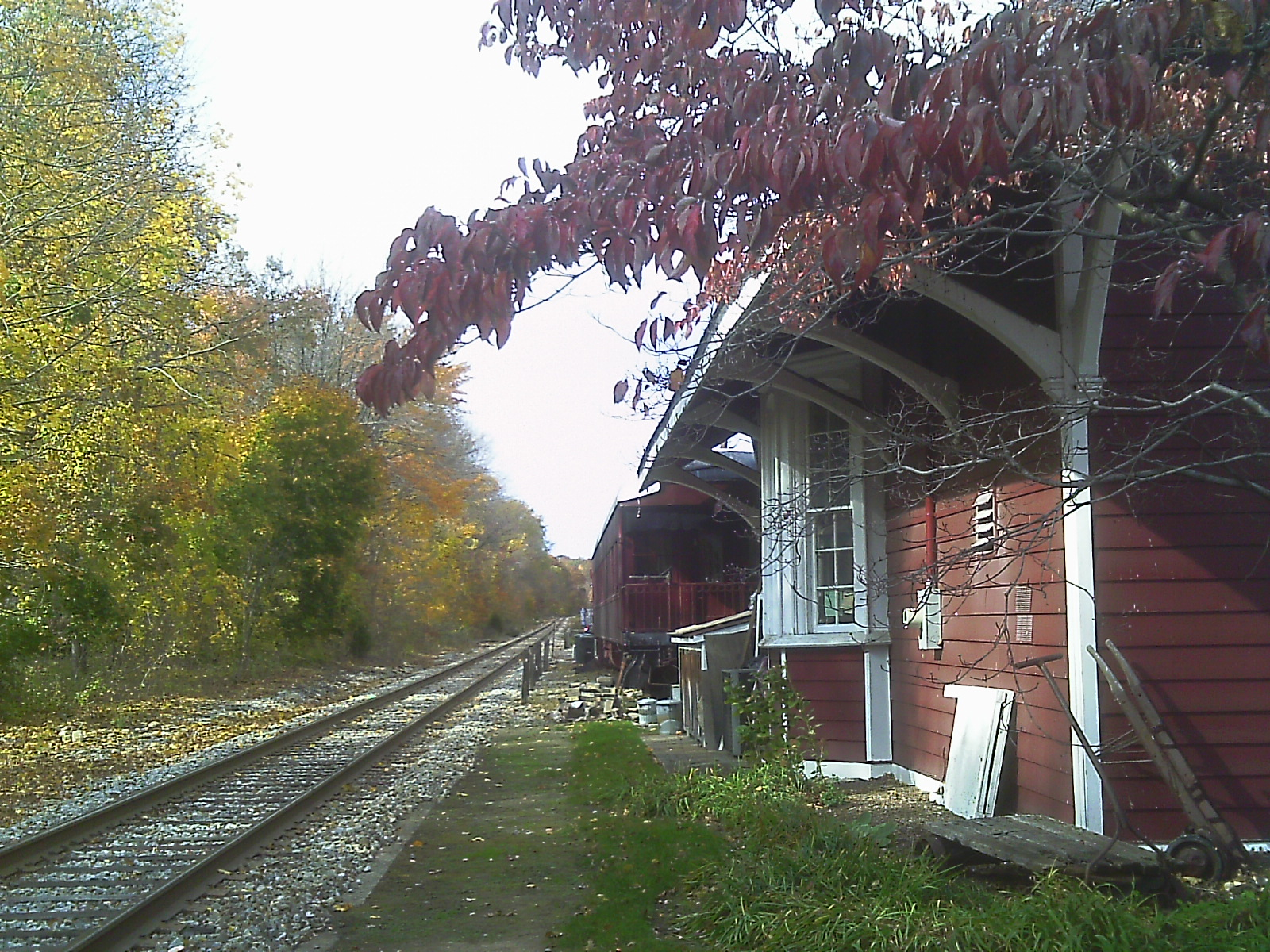 The former New York, Susquehanna and Western station at Wortendyke in Midland Park, New Jersey. The existing NYS&W track heads to the north past a former caboose. The old station platform is also visible, rotting in the glass in the forefront.